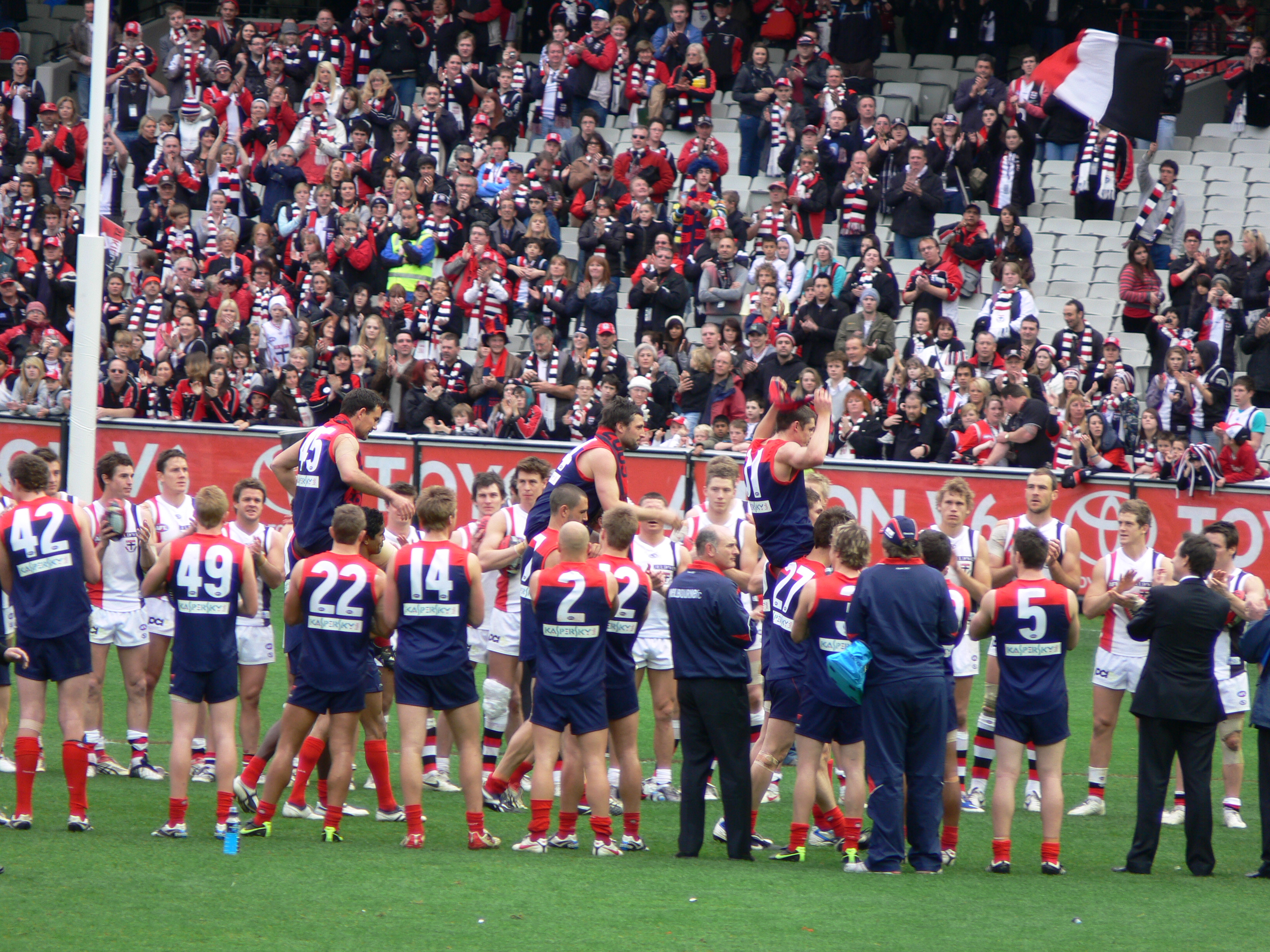 Robo, Wheatley and Whealan are chaired off after their lastgame for the Demons. A great effort bu the Wooden Spooners against the premiership favourites.